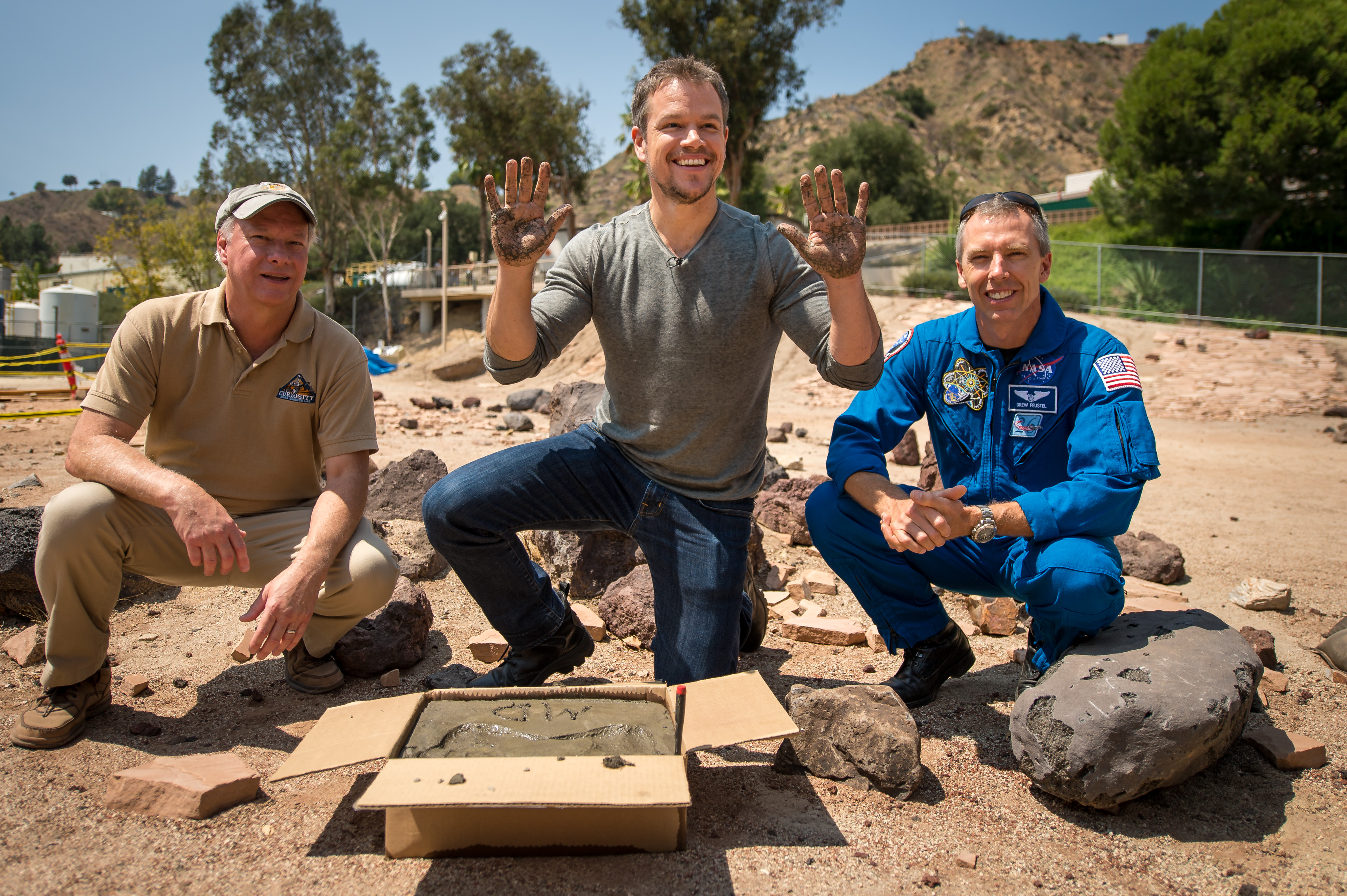 Actor Matt Damon, who stars as NASA Astronaut Mark Watney in the film “The Martian,” smiles after having made his hand prints in cement at the Jet Propulsion Laboratory (JPL) Mars Yard, while Mars Science Lab Project Manager Jim Erickson, left, and NASA Astronaut Drew Feustel look on, Tuesday, Aug. 18, 2015, at the JPL in Pasadena, California. While at JPL Damon meet with NASA scientists and engineers who served as technical consultants on the film. The movie portrays a realistic view of the climate and topography of Mars, based on NASA data, and some of the challenges NASA faces as we prepare for human exploration of the Red Planet in the 2030s.